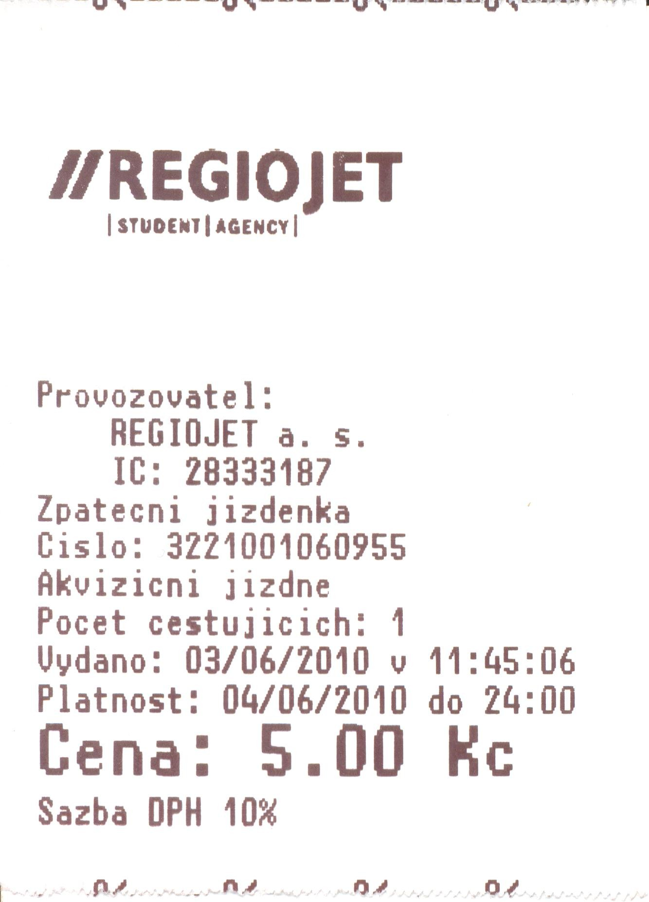 Ticket for promotinal ride in RegioJet train, Czech Republic